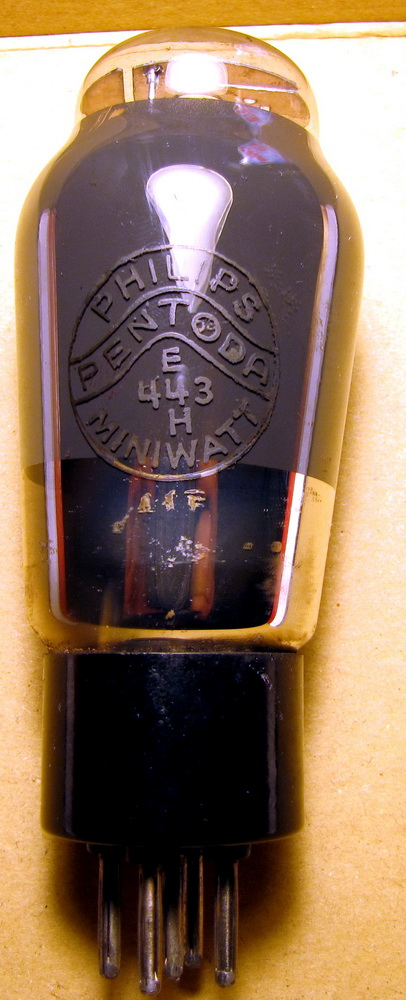 E443h Pentoda Philips Miniwatt